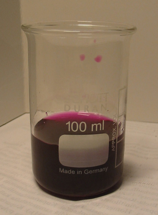 Intense purple color of potassium permanganate solution